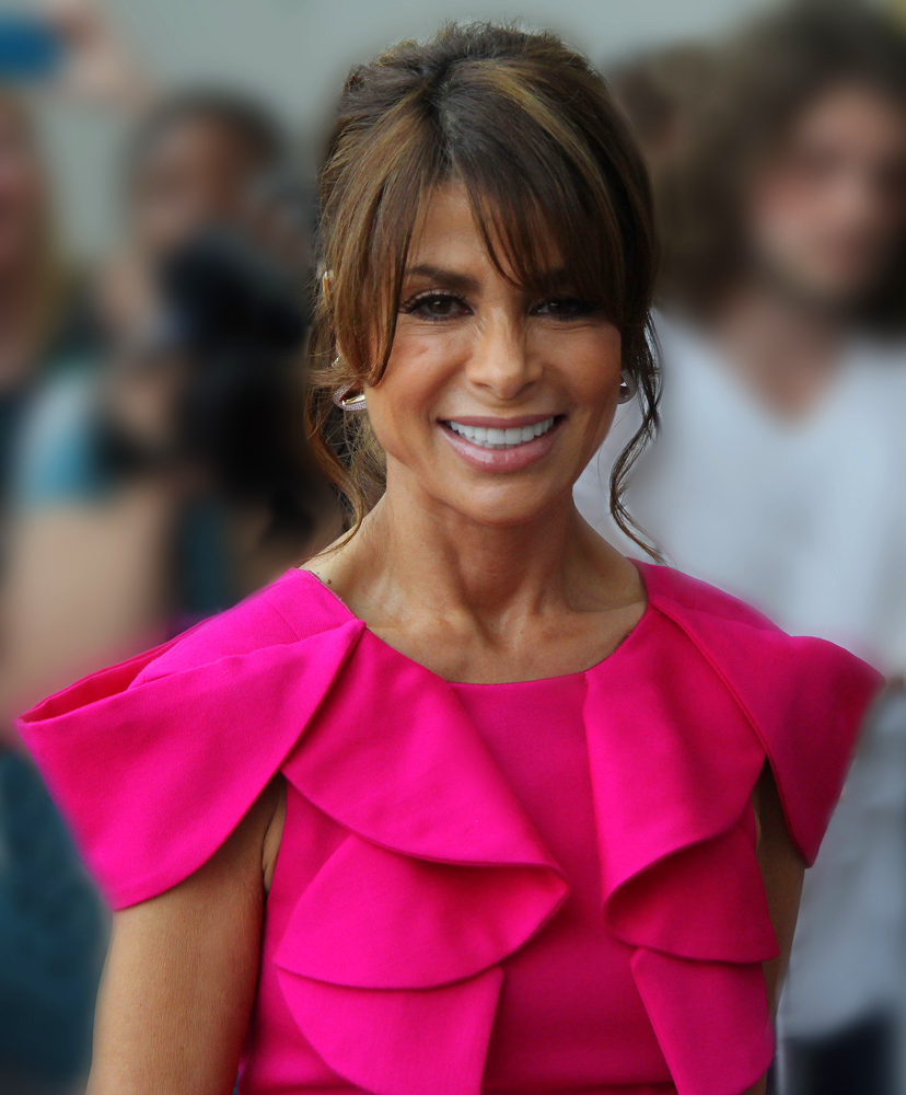 Paula Abdul at the New Jersey X factor Auditions 2011.